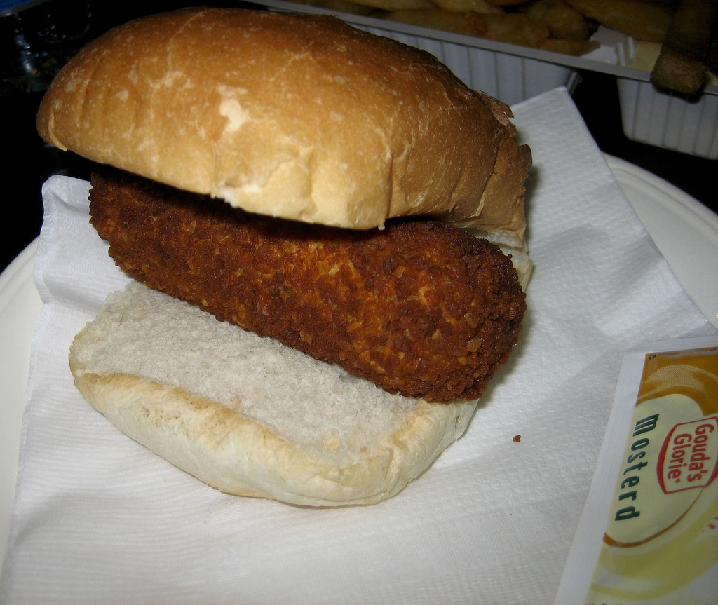 Bread with croquette, a Dutch snack